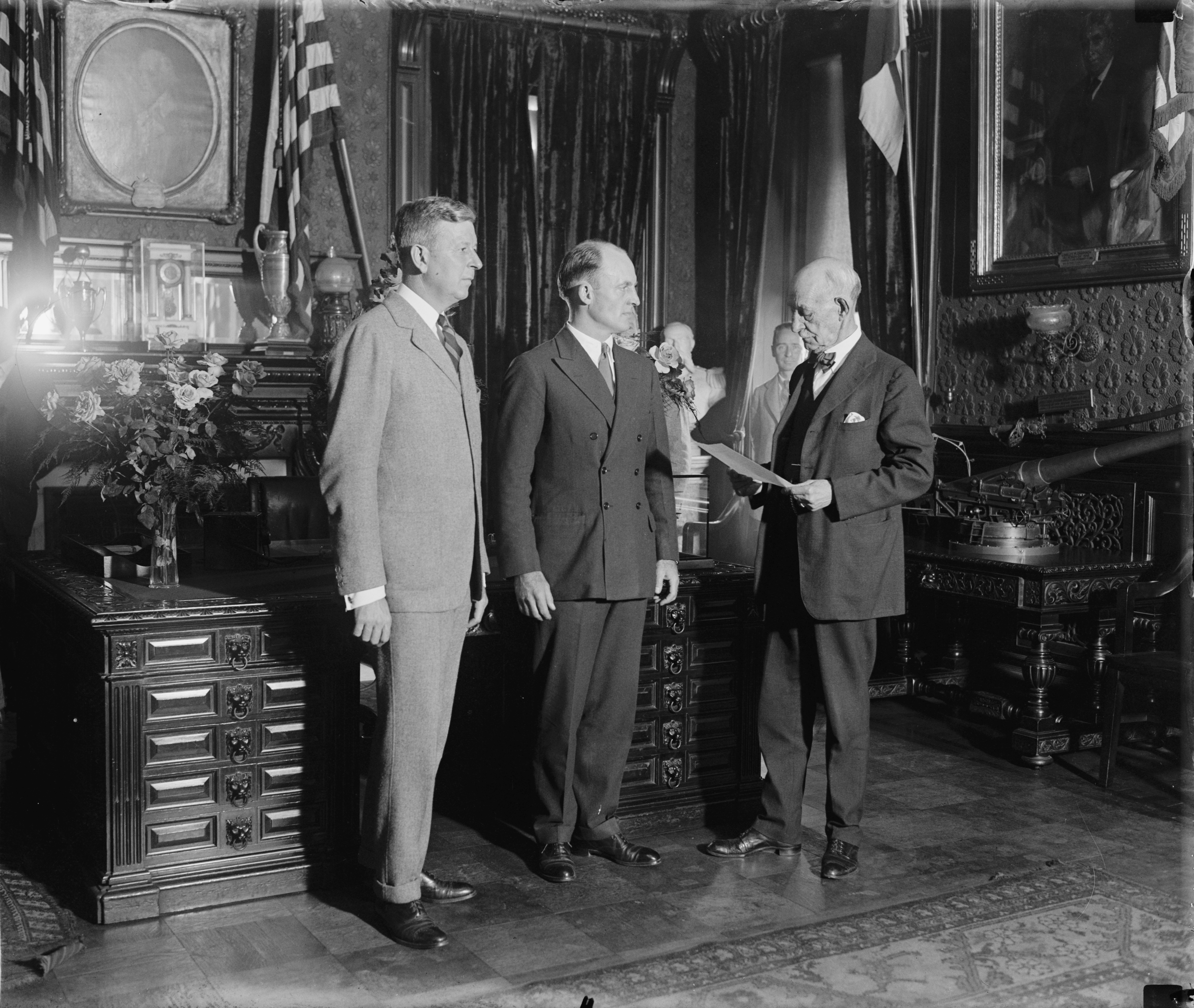 Swearing in of Asst. Sec. of War, Hanford MacNider, [10/16/25]